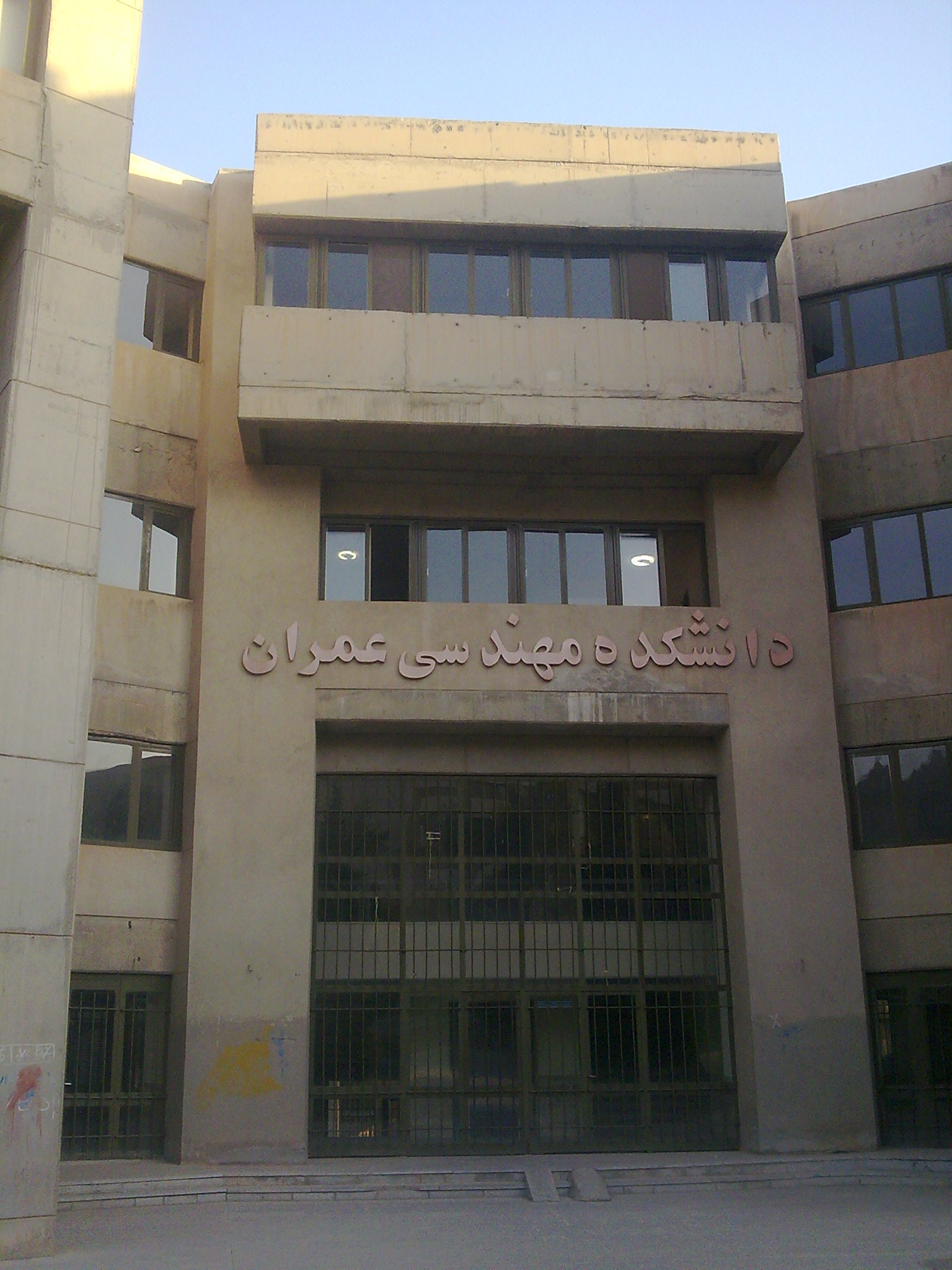 Civil department of Isfahan University of technology